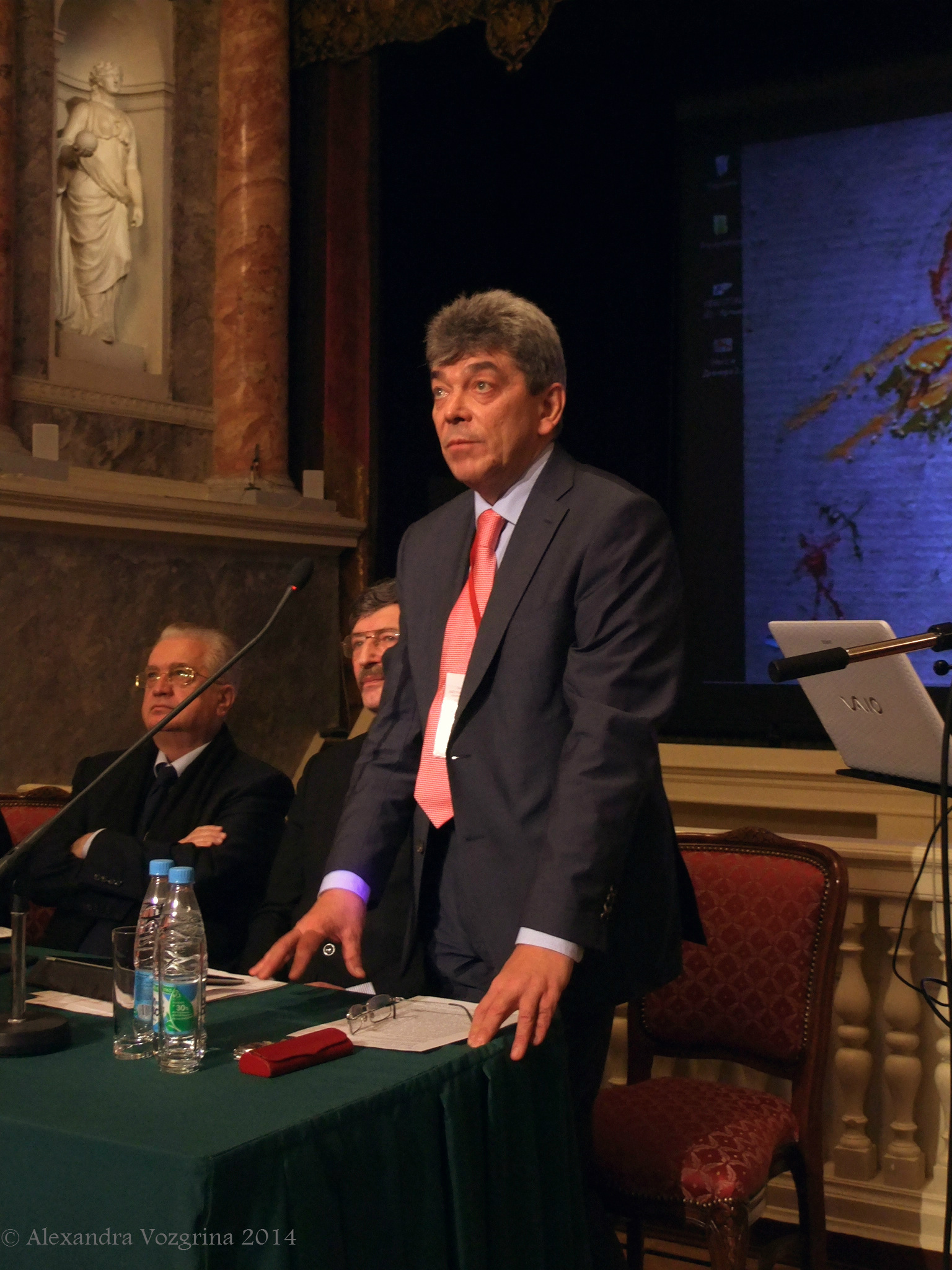 Ivan Tuchkov